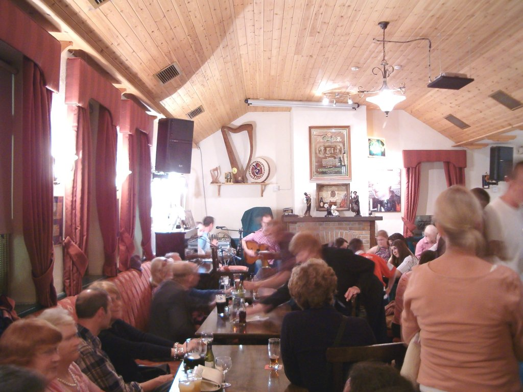 Leo's Tavern in Meenaleck, Co. Donegal. Home of Clannad and Enya